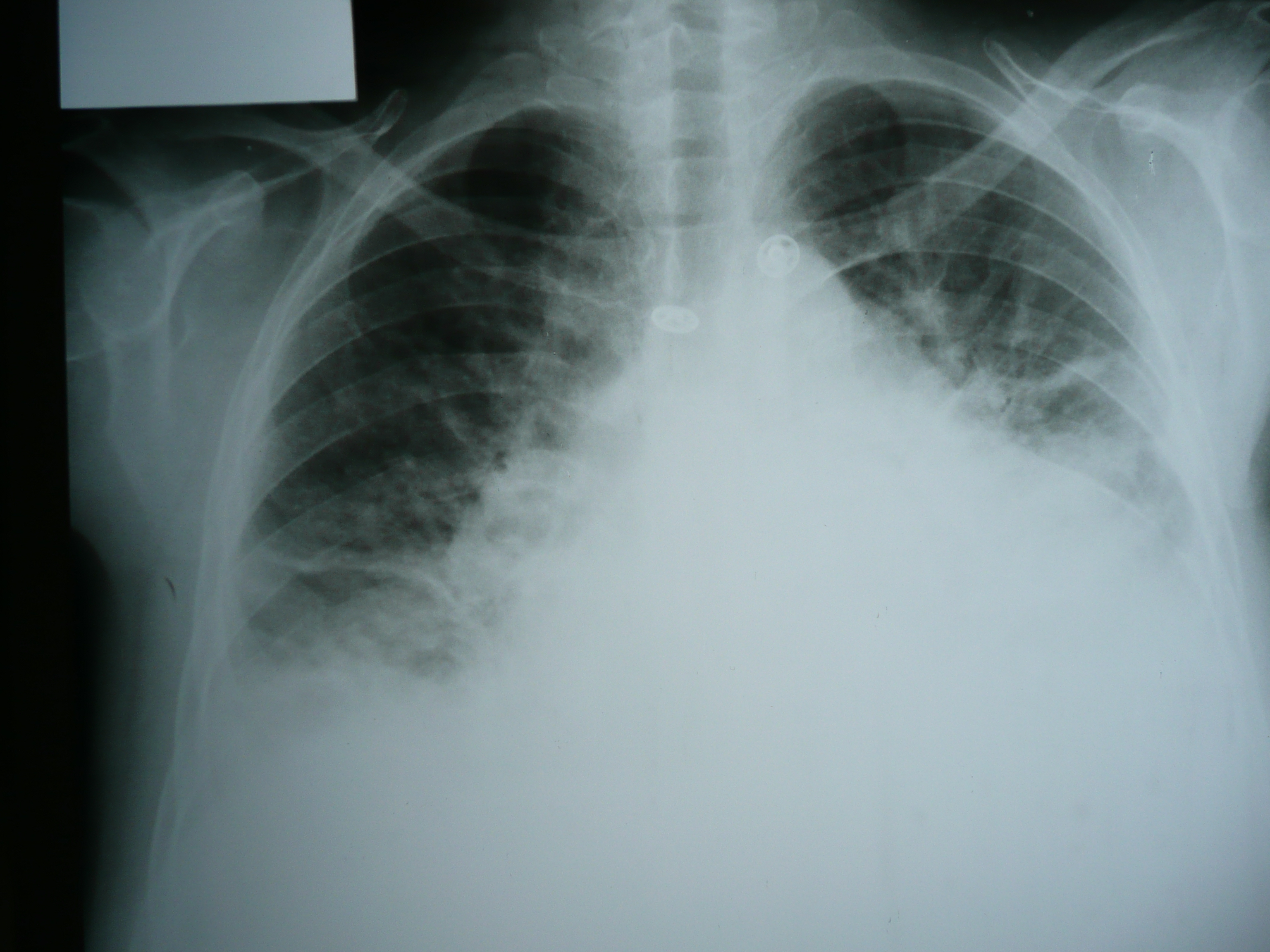 Medical X-rays Congestive heart failure